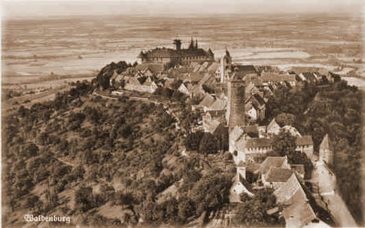 Postcard of Waldenburg